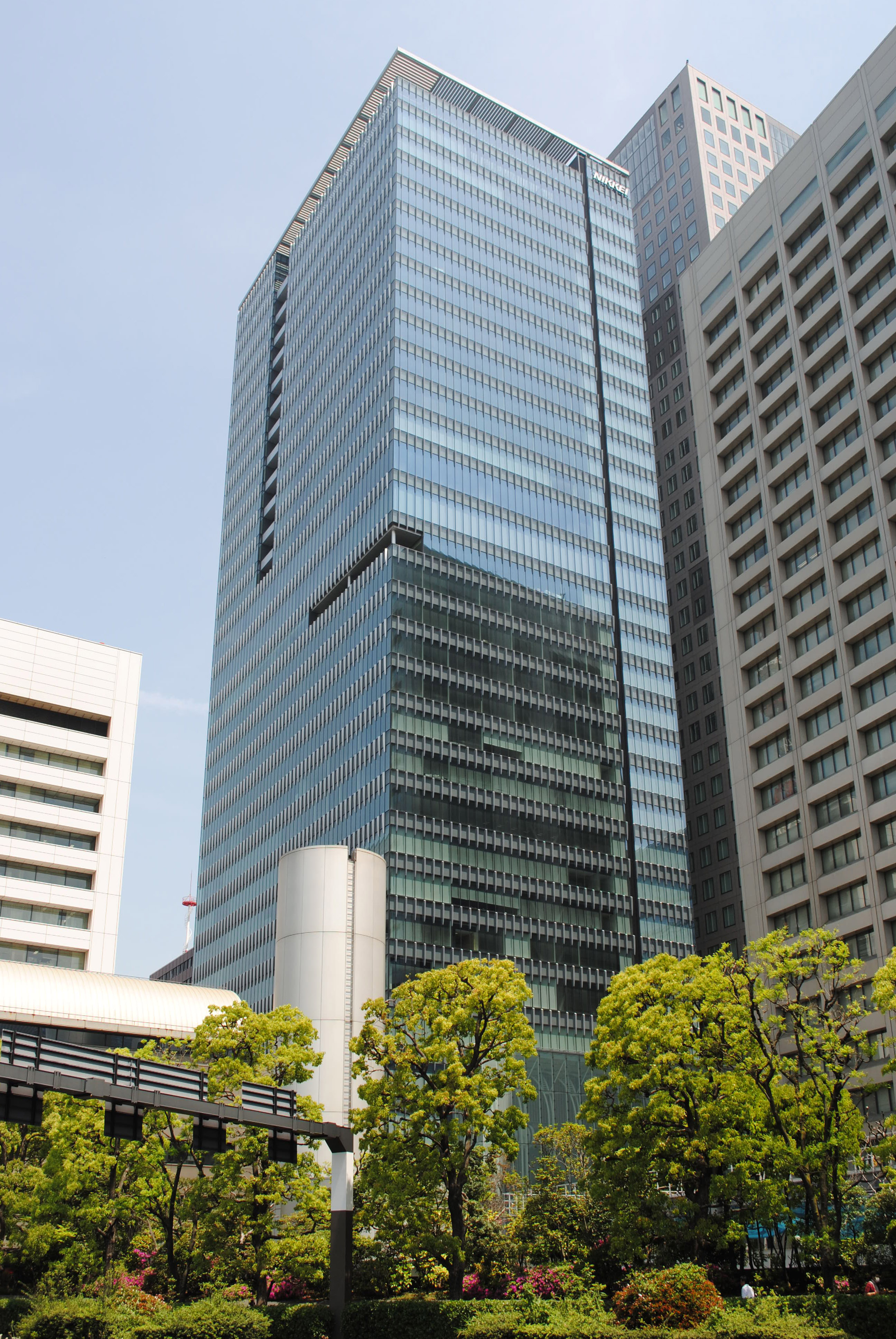 Nikkei Building, located at Ōtemachi, Chiyoda, Tokyo, Japan